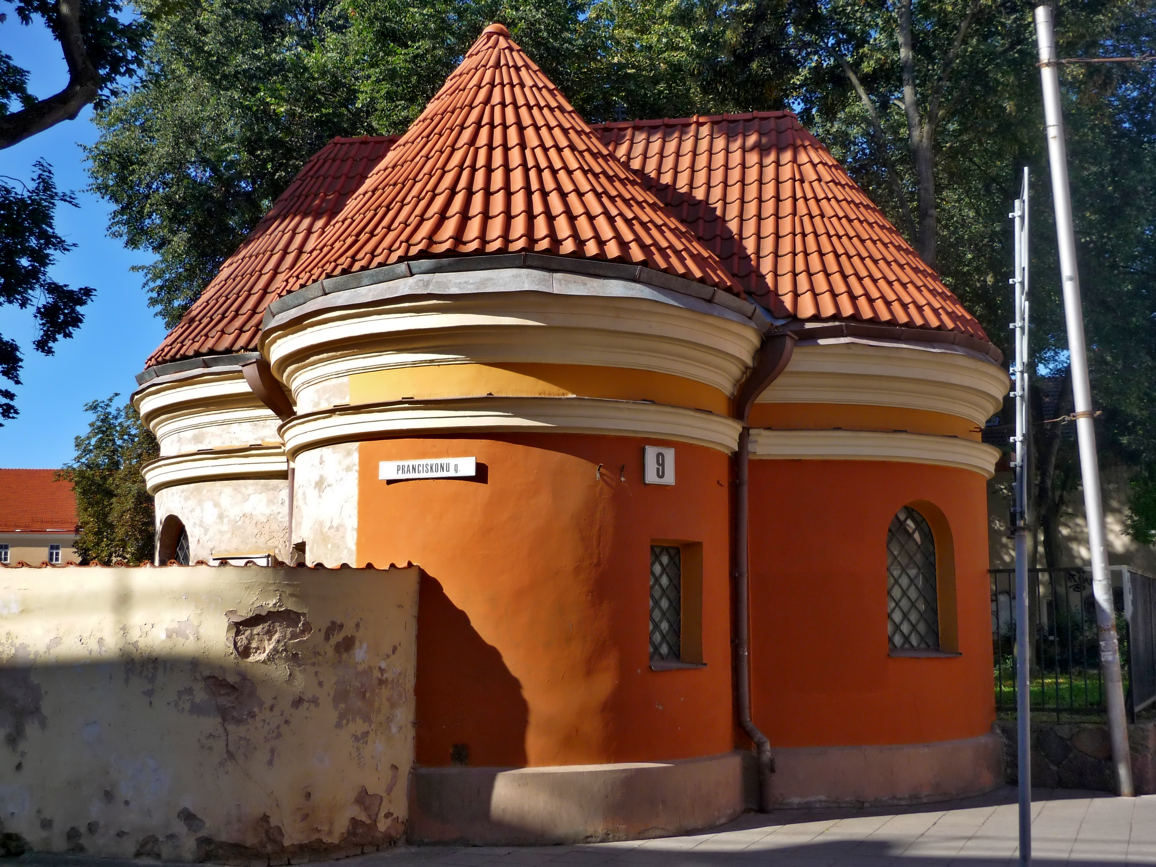 Suzin's baroque chapel next to the franciscan church